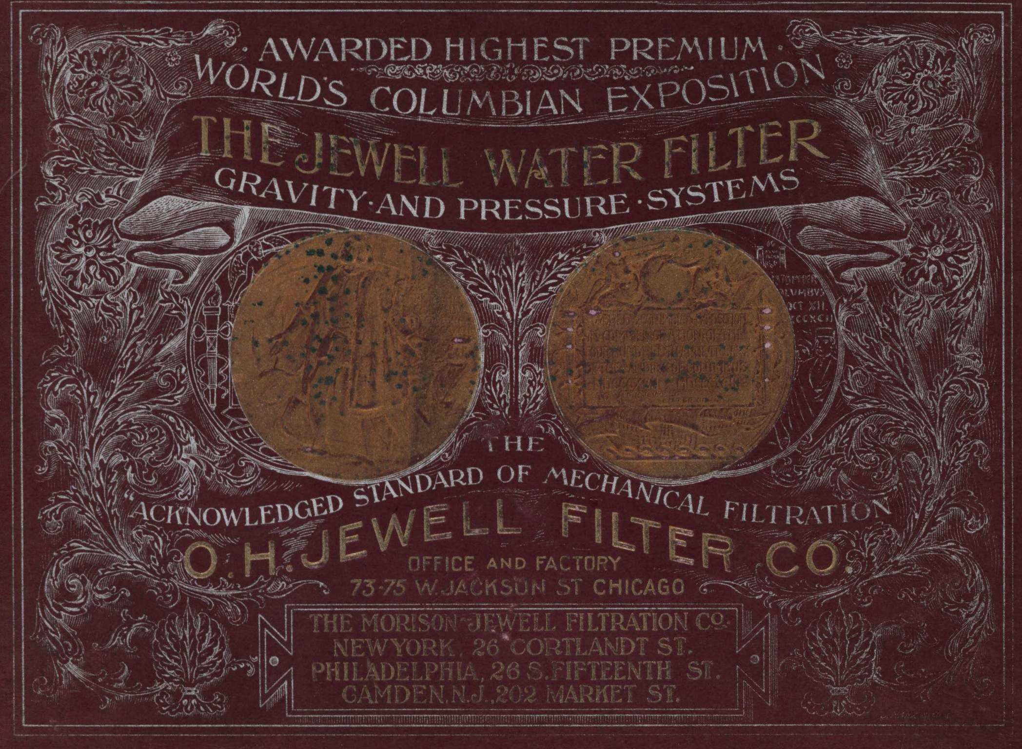 The Jewell water filter gravity and pressure systems by O.H. Jewell Filter Company